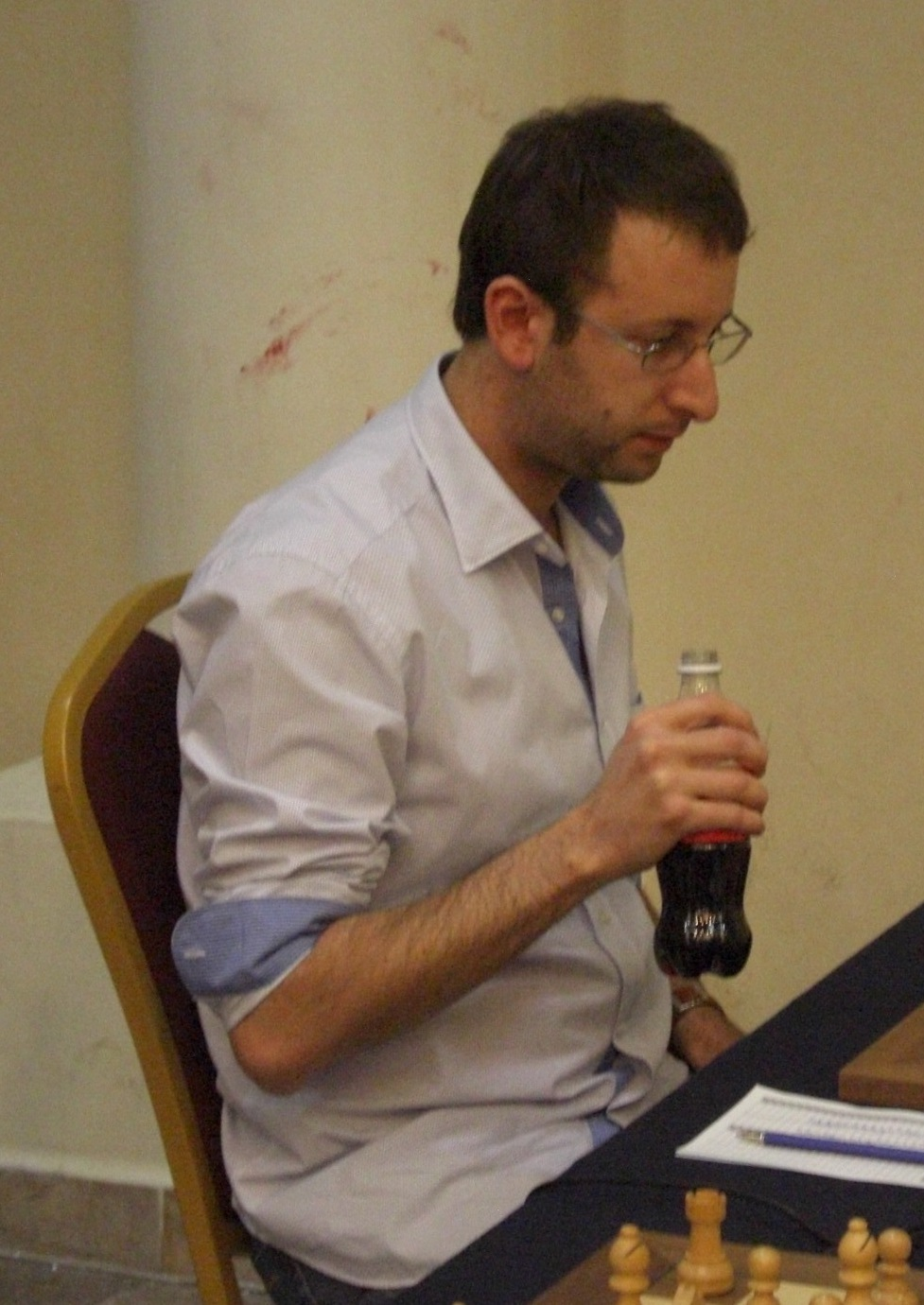 Ruben Felgaer during the American Continental Chess Championship in Toluca (Mexico), April 2011